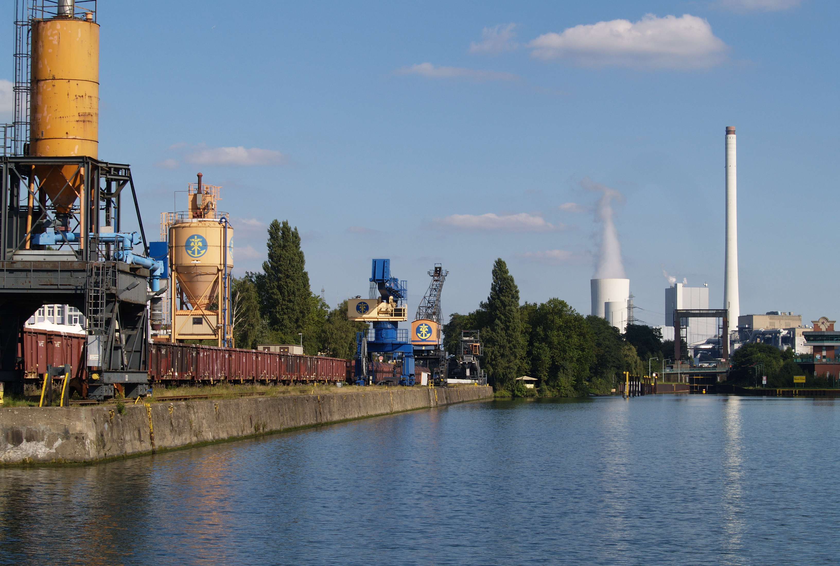 Rhein-Herne-Kanal, the west port of Wanne-Eickel with the Wanne lock, north chamber.